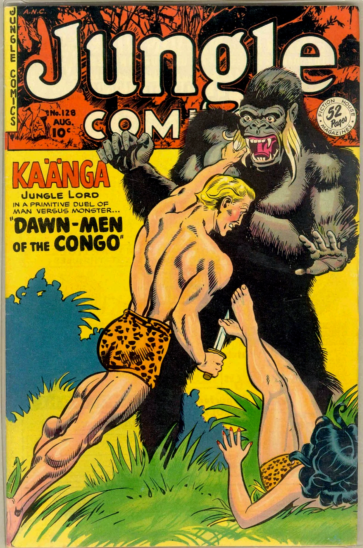 Jungle Comics #128 (1950)